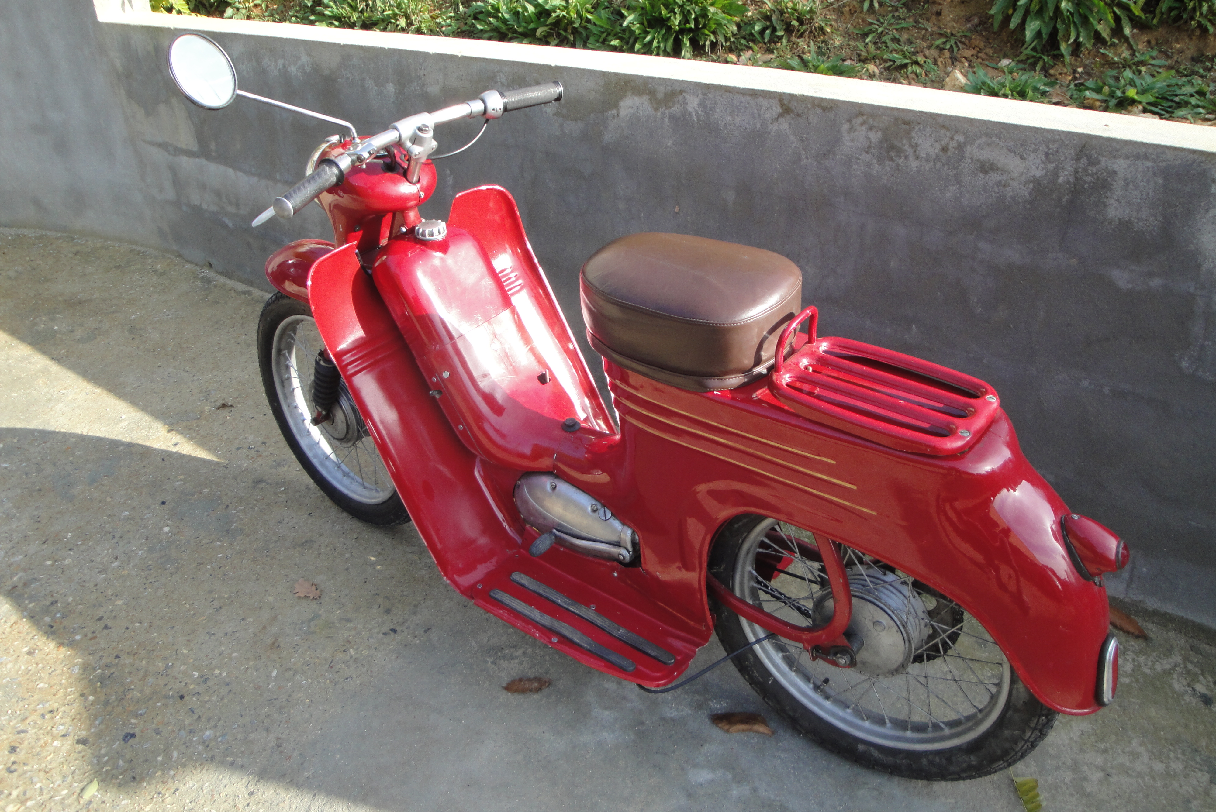 Jawa 50/555 from 1958. De Luxe Version with front shields.